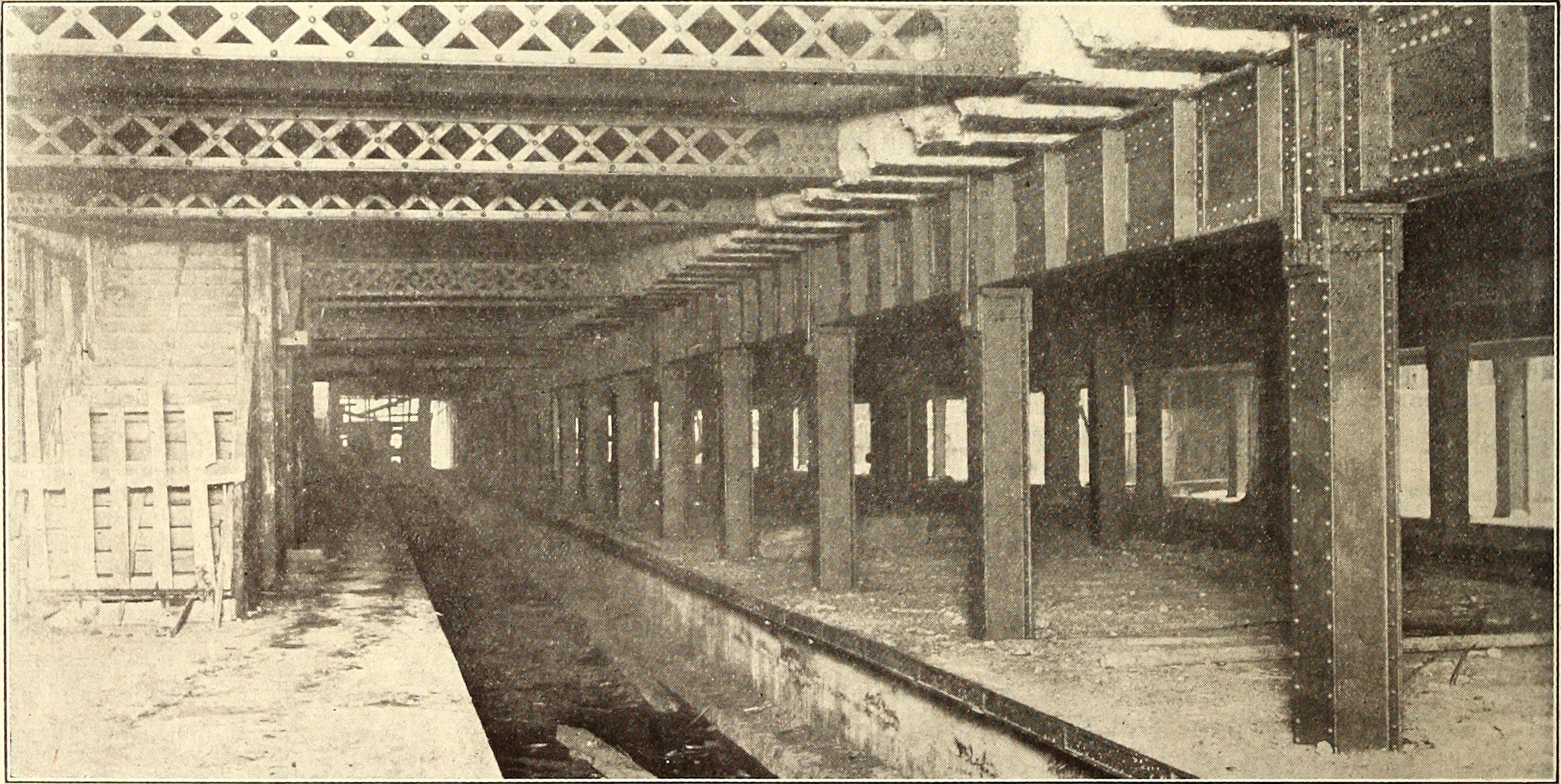 Title: The Street railway journal Year: 1884 (1880s) Authors: Subjects: Street-railroads Electric railroads Transportation Publisher: New York : McGraw Pub. Co. Text Appearing Before Image: ELi:\.\TKD R.\IL\V.\Y APPRO.ACH TO TERMINAL Coney Island, among them the Nostrand Avenue, Tomp-kins Avenue, Reid Avenue and Franklin Avenue lines.Several other lines also reach amusement resorts. TheMarcy Avenue line is operated to the race track at Sheeps-head Bay, which is opposite Manhattan Beach. The Ham-burg Avenue line is operated to Canarsie and the GrandStreet line to North Beach, both of which are popular re- Text Appearing After Image: LOADING AND UNLOADING PLATFORMS FOR ELEVATED TRAINS, SHOWING WORK BEFORE TRACKS WERE LAID The surface lines that will use the terminal will be Nos-trand Avenue, Marcy Avenue, Tompkins Avenue, ReidAvenue, Ralph Avenue, Broadway, Hamburg Avenue,Wyckofif Avenue, Grand Street and Bushwick Avenue sur- sorts. The elevated lines that will use the terminal are theBroadway and Cypress Hills and the Canarsie lines ofthe Brooklyn Rapid Transit Company. The estimatedcapacity of the trolley loops is 400 cars an hour, and the April ii, 1908.) STREET RAILWAY JOURNAL. 593 estimated capacity of the elevated terminal is 30 eight-car nue from Loop 6, Bridge Local from Loop 7, Grand Street trains an hour. • and Franklin Avenue lines from Loop 8. There will be a As far as possible the loops for the different surface lines common stairway to each of the loops 12 ft. wide, divided will be so assigned that the number of passengers using by a railing to separate the incoming from the outgoing pas- KALEVIMAG